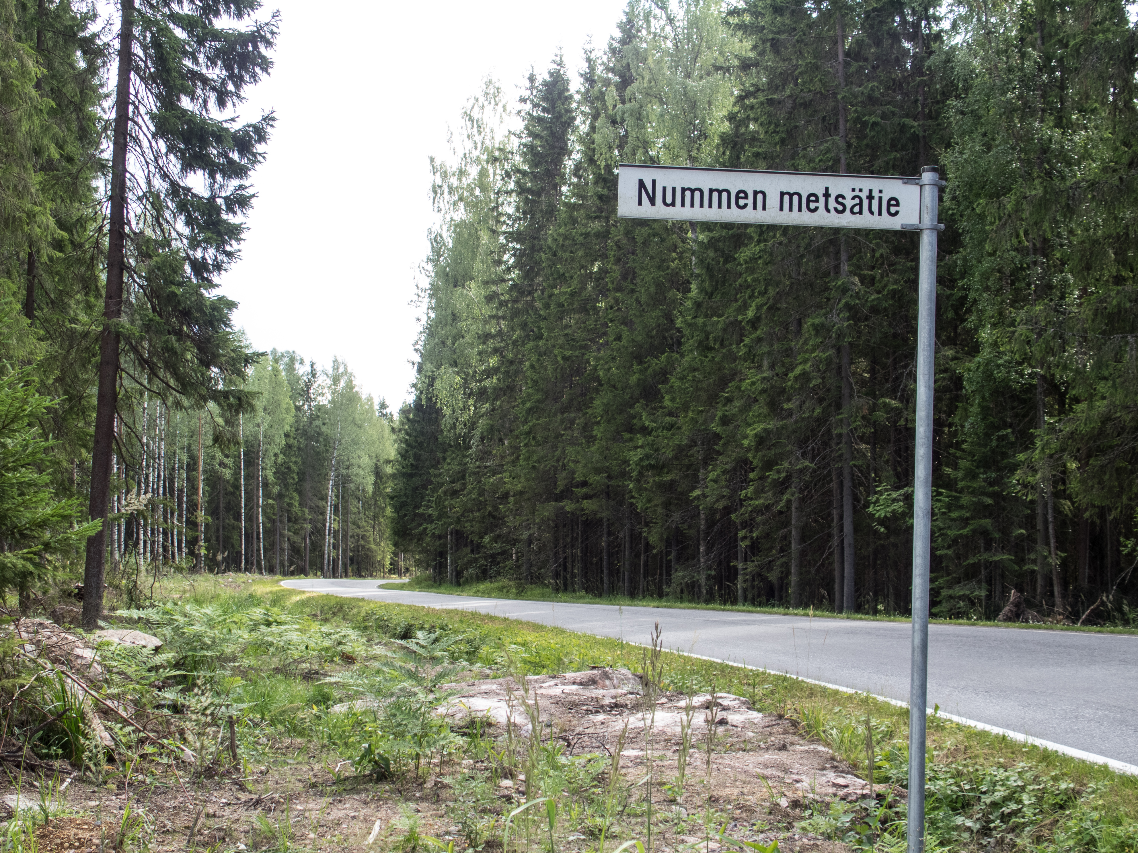 Connecting road 2043 runs from Riihikoski to Rannanmäki in Pöytyä, Finland.